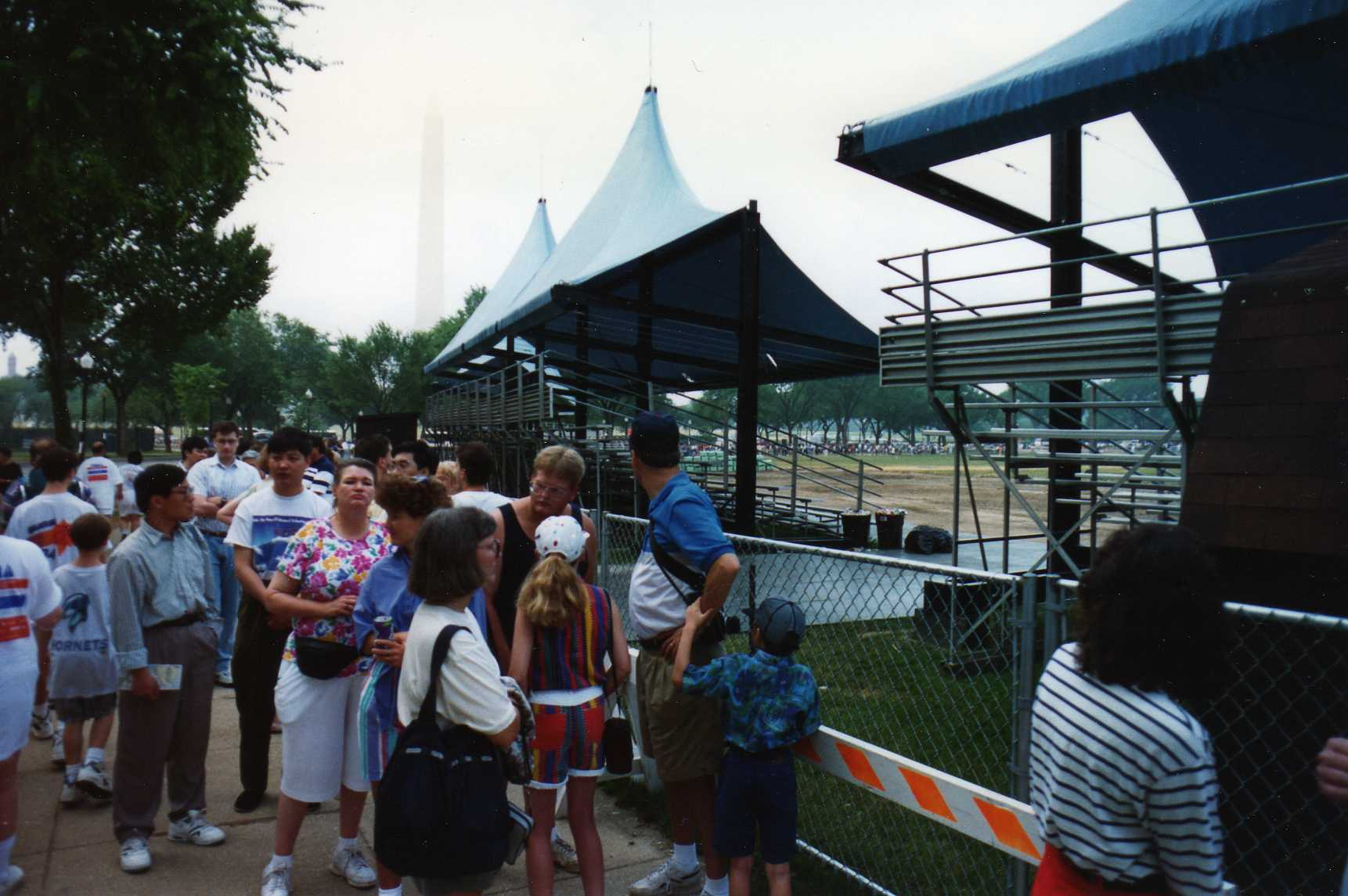 Early morning lineup to get tickets for that day's White House Tour.